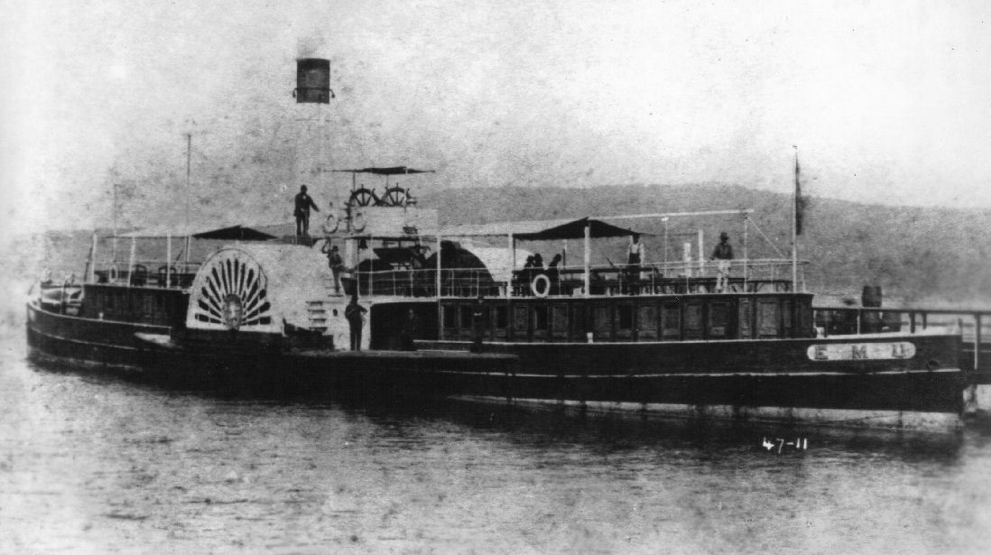 Manly ferry Emu at Manly Wharf circa late 1860s. Later named Brightside